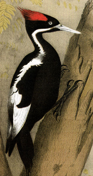 Ivory-billed Woodpecker, Campephilus principalis , chromolithograph